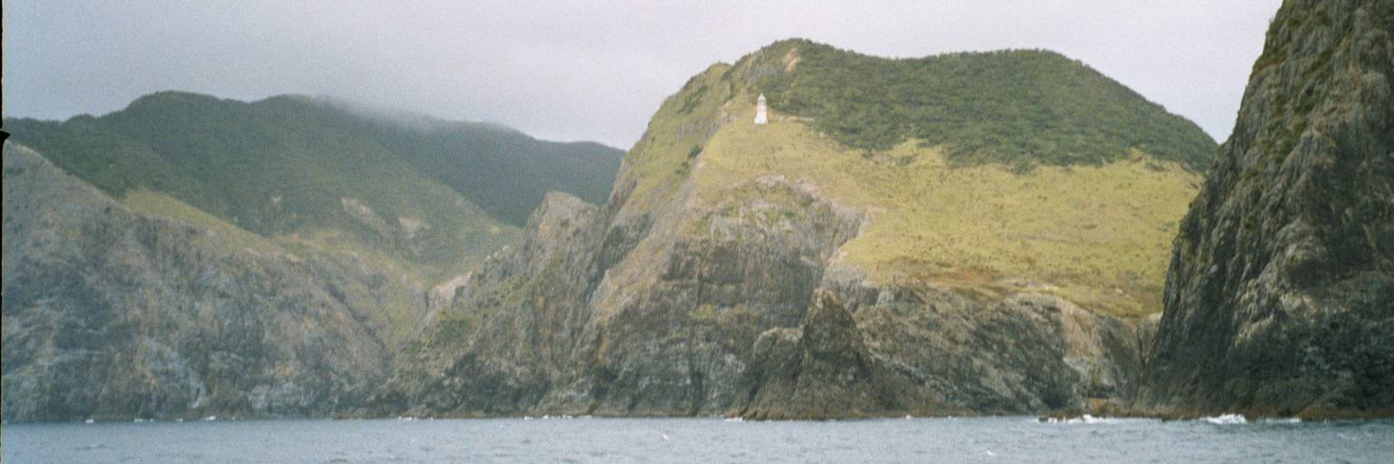 Cape Brett, North Island New Zealand, view from sea